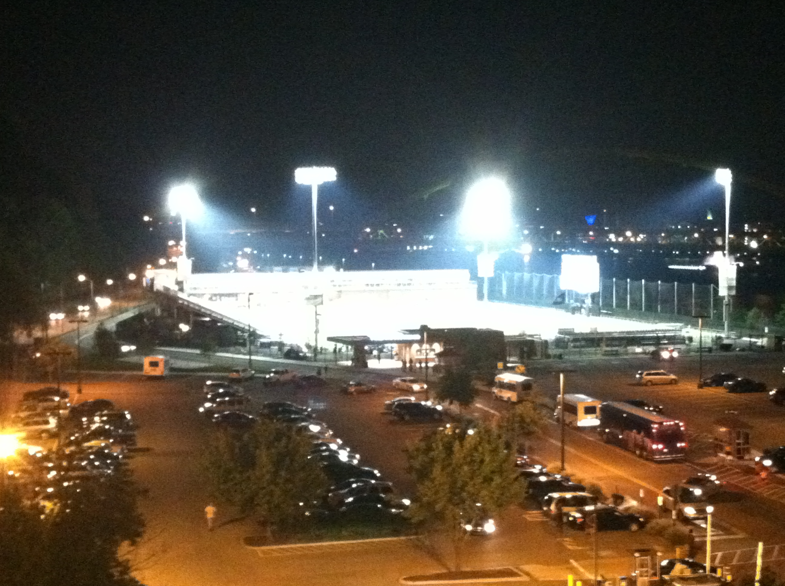 Highmark Stadium, home of the Pittsburgh Riverhounds 7/19/13 vs. Wigan Athletic